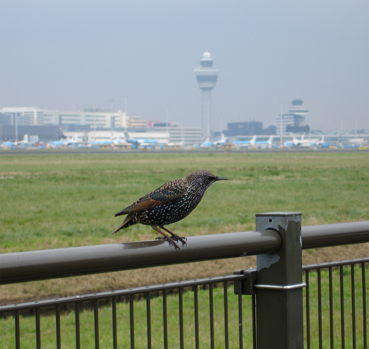 Common Starling at Schiphol, Amsterdam. Photo by Solitude (16 October 2004).